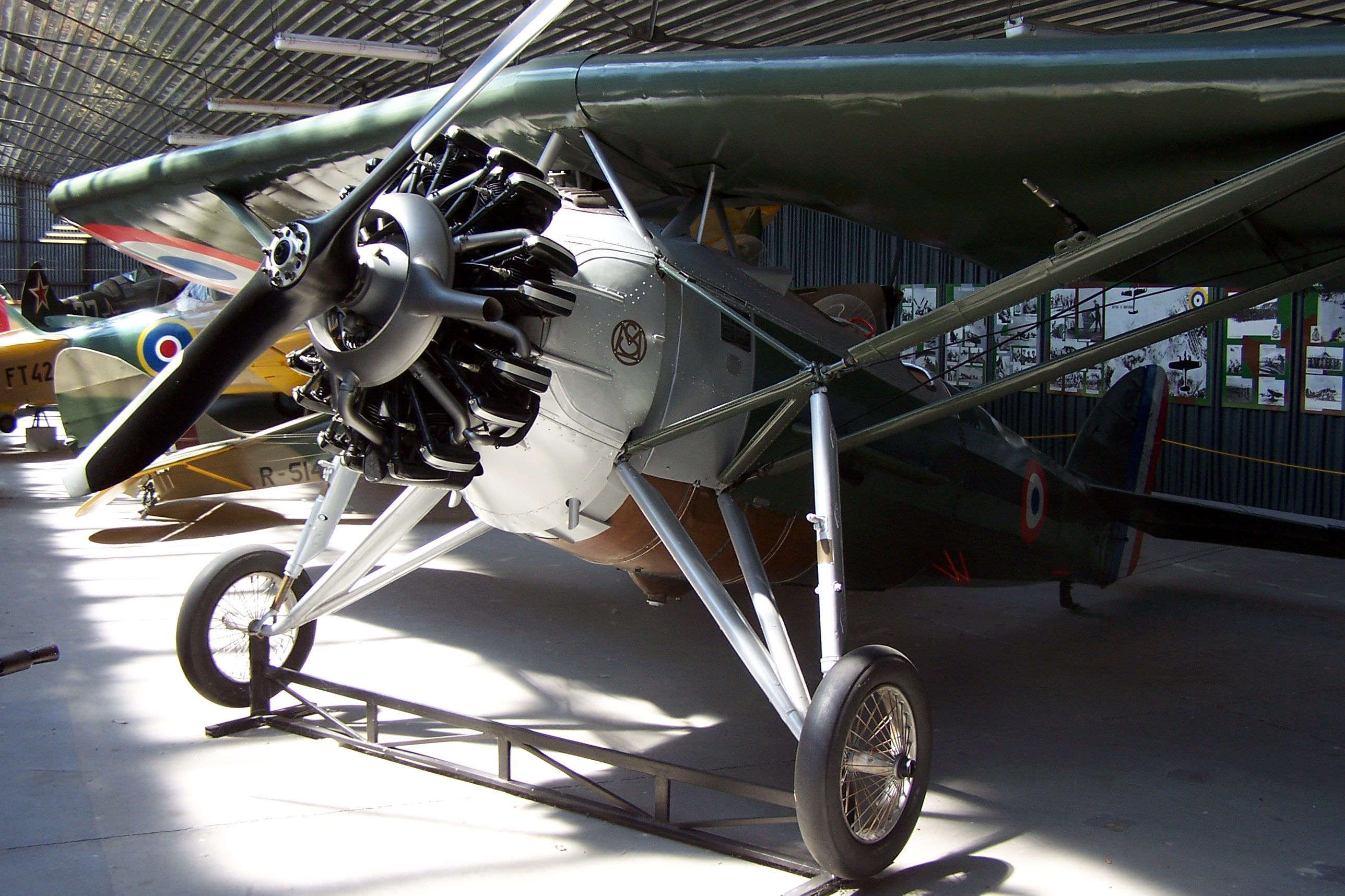 Morane-Saulnier MS 230 in Aviation Museum Prague Kbely